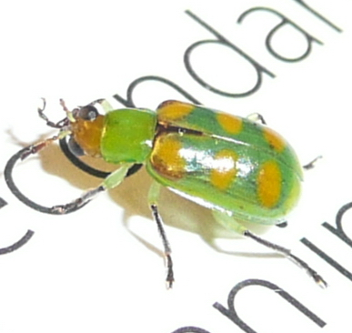 Probably Diabrotica speciosa, "vaquita de San Antonio". Fortín Olavarría, Buenos Aires province, Argentina. This image is part of a set